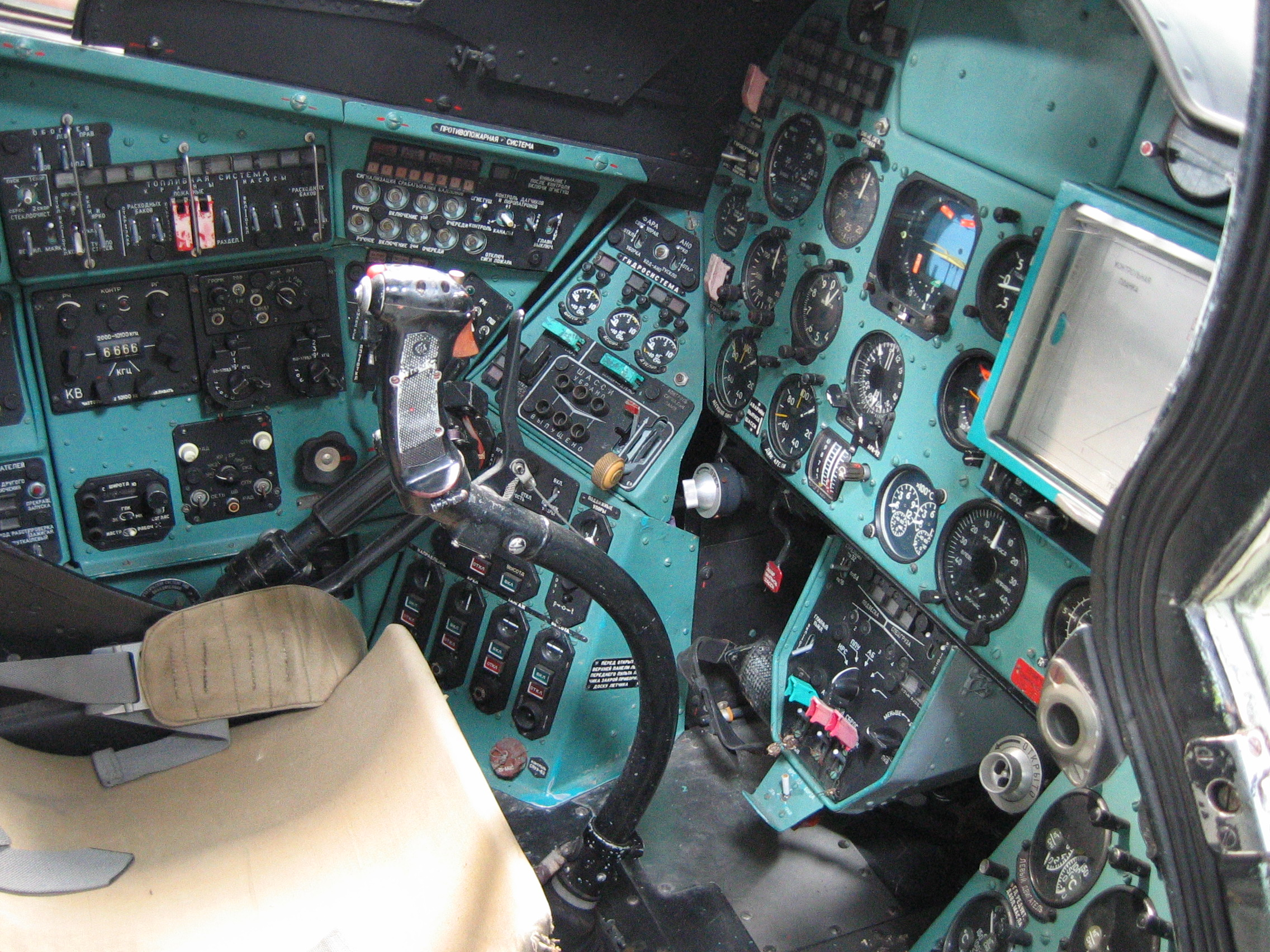 The pilot's cockpit of the Mil MI-24 'hind' helicopter. The helicopter pictured was operated by the East German Army prior to the reunification of Germany, then by the German air force, finally being retired in 1992.